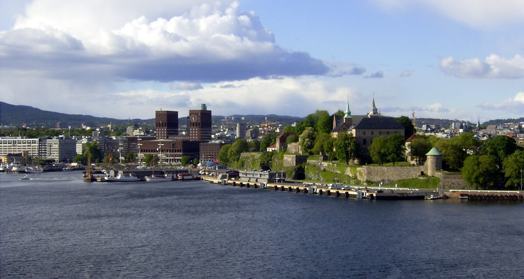 Akershusstranda in downtown Oslo, with Oslo City Hall and Akershus Festning